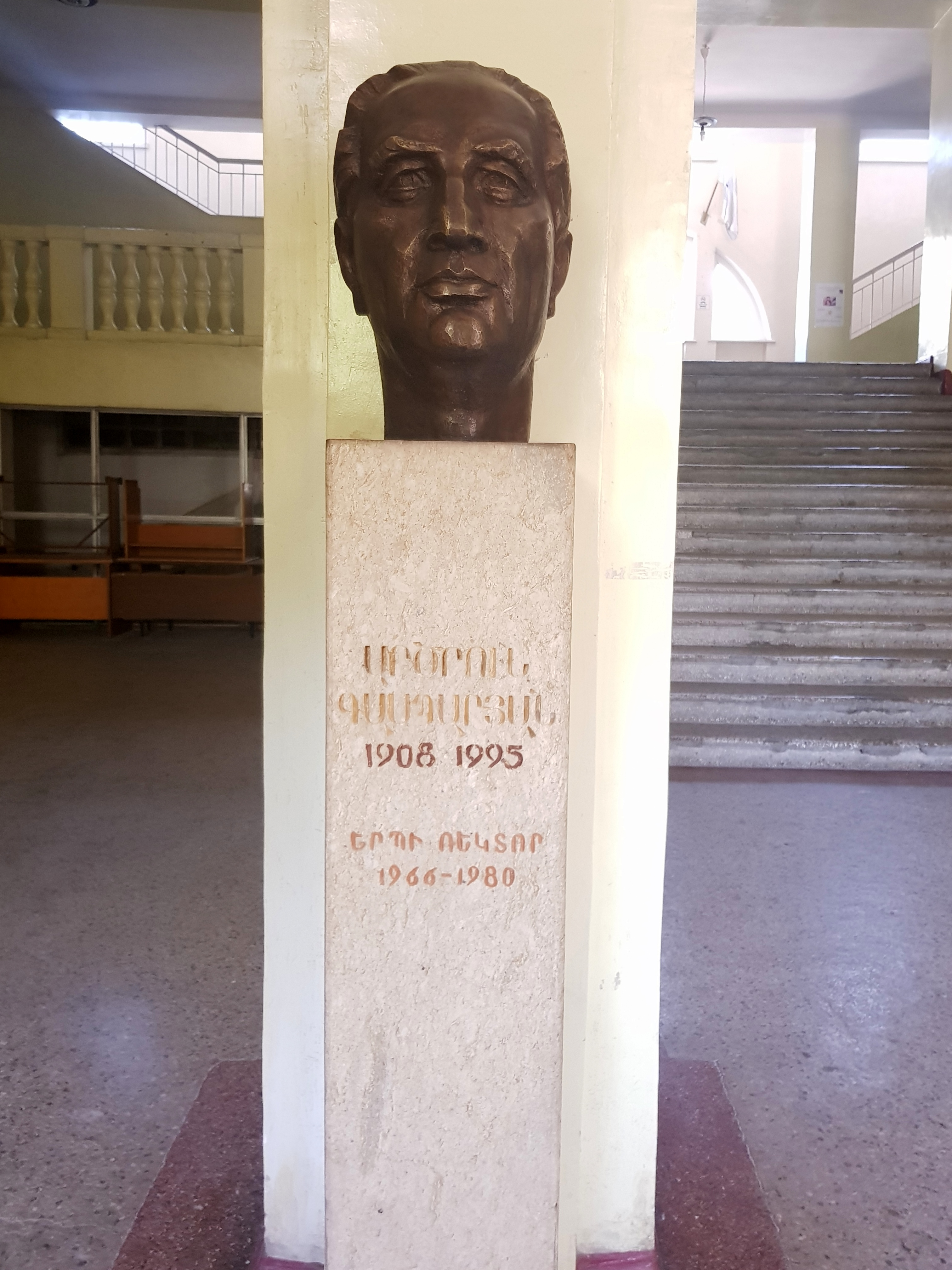 Bust of Artsrouni Gasparyan in the building of Chemical Technologies Department